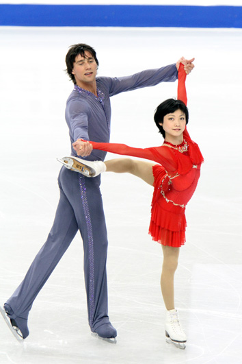 Yuko Kawaguchi and Alexander Smirnov at the 2010 World Championships (FS).